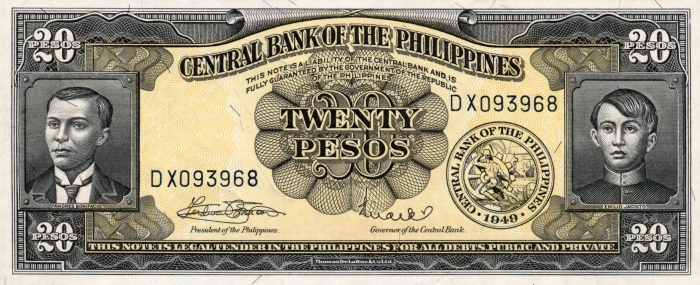 Php 20-peso English series bill (observe)